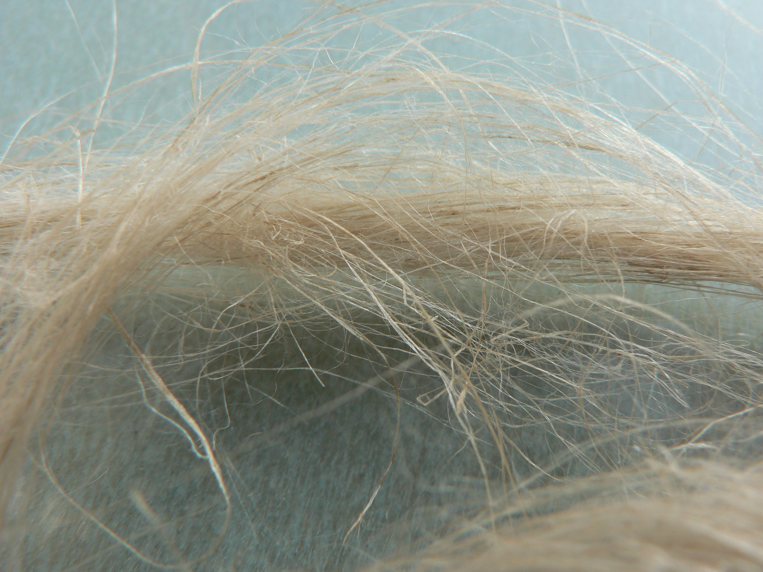 flax fibers for plumber work